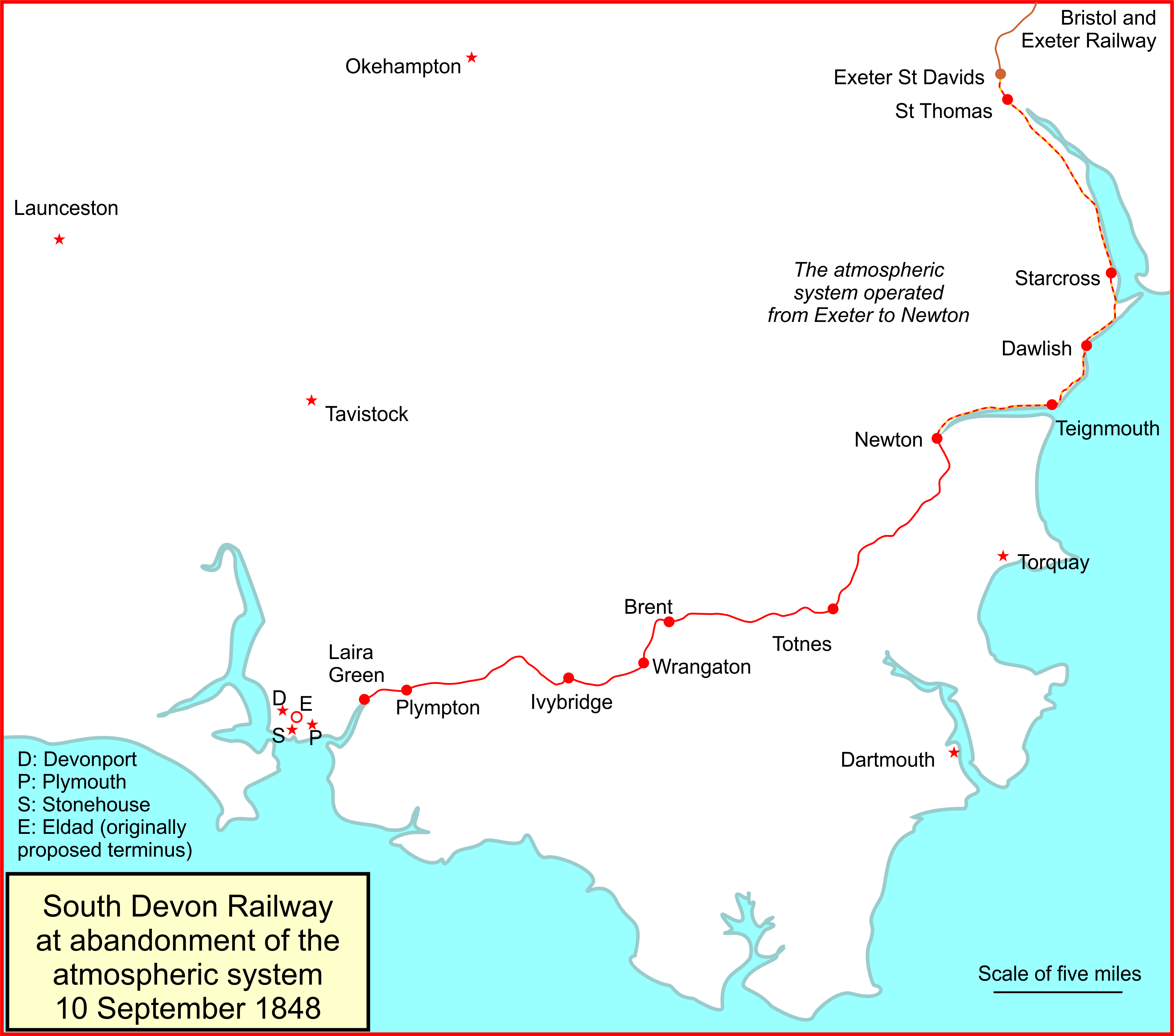 Map of the South Devon Railway system in England in 1848